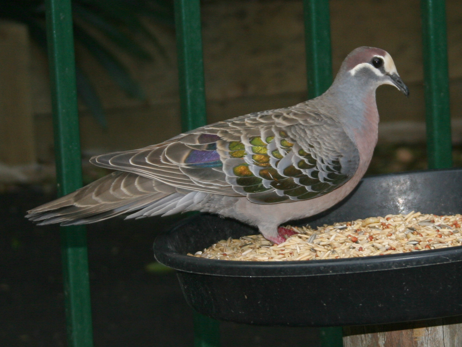 Common Bronzewing (Phaps chalcoptera)